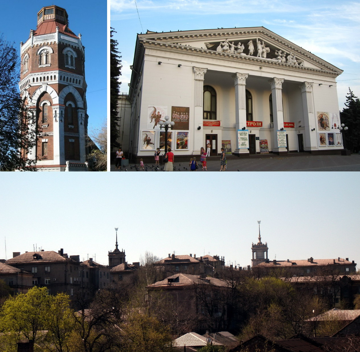 Old Fire Tower, Mariupol City Theater, Skyline